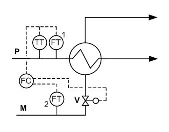 HEX with feed forward control